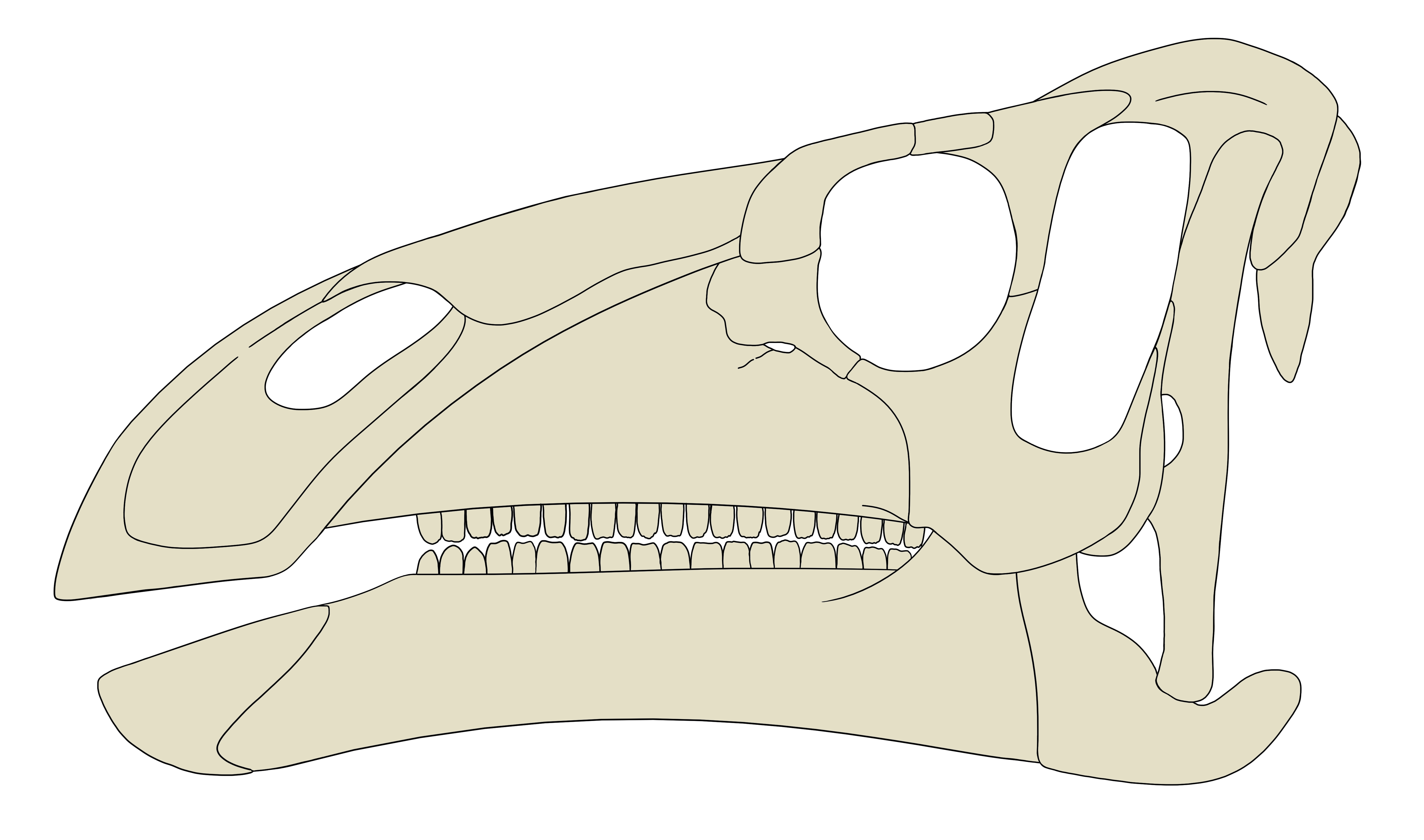 Reconstructed skull of Iguanacolossus, UMNH VP 20205. Missing parts filled after the closely related Iguanodon.